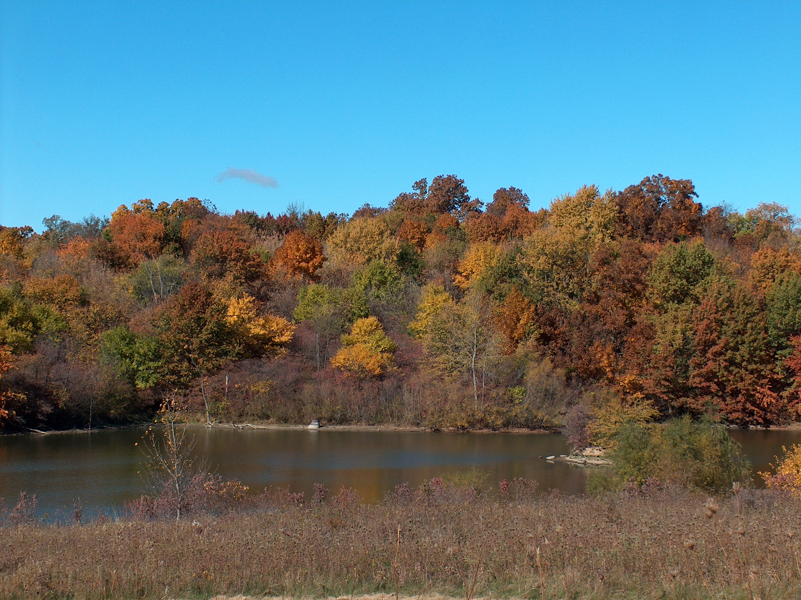 Photo taken by User:Mike R on 25 October, 2005.